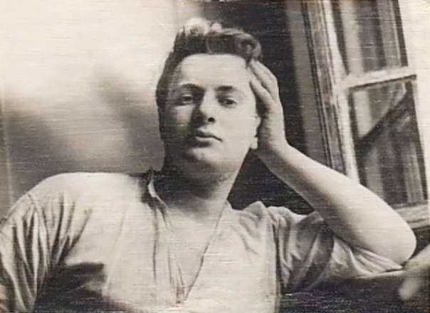 Russian theatre director Boris Ponizovsky in his young age